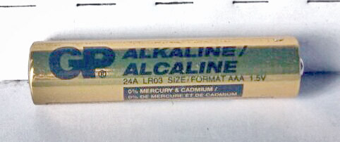 Common battery type , these are generally used in wireless keyboards, tv remotes.